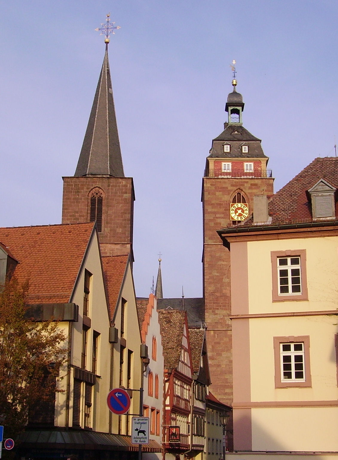 fountain in Neustadt an der Weinstraße, Germany